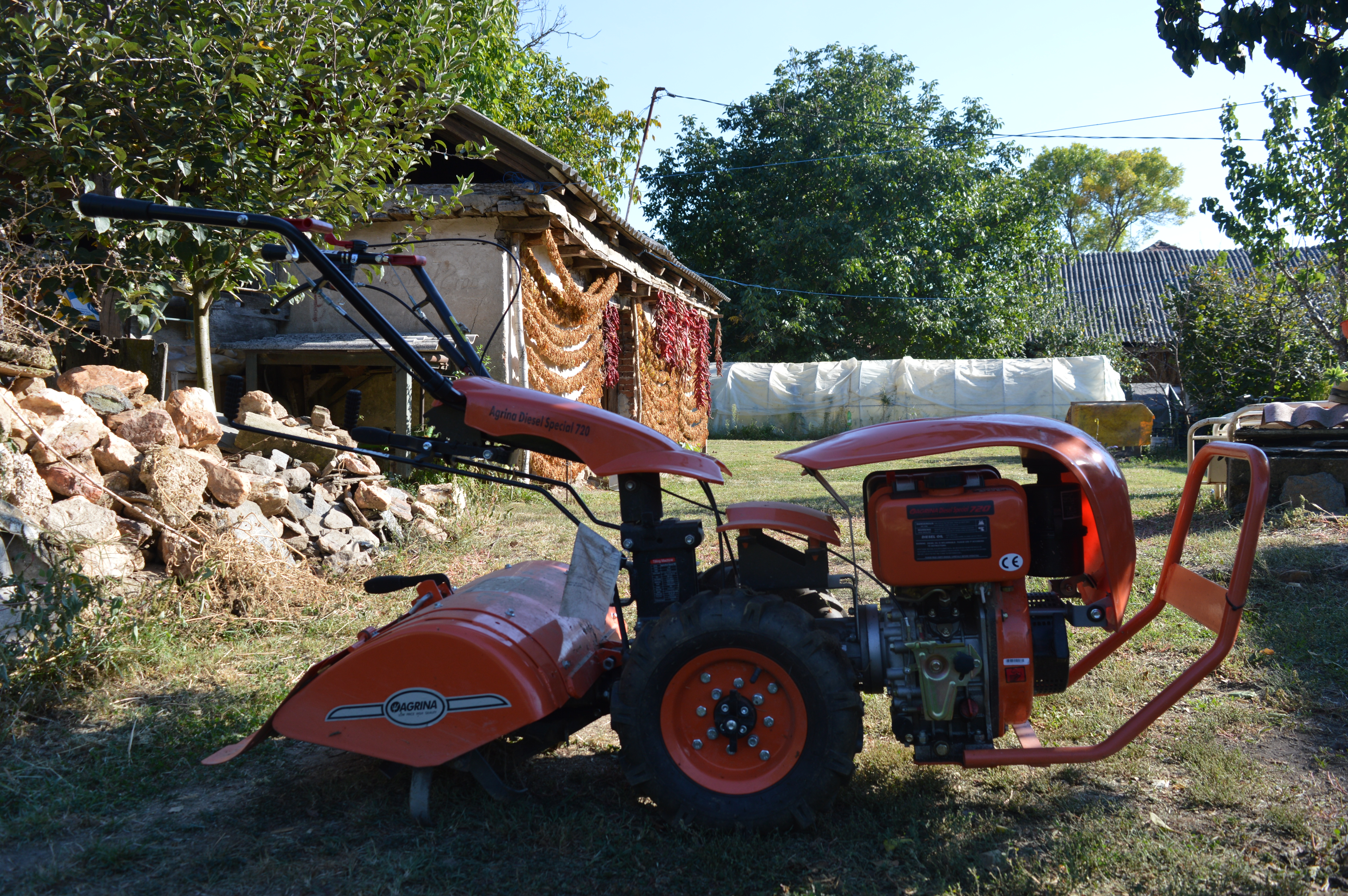 Two wheel tractor in Kostinci, Macedonia